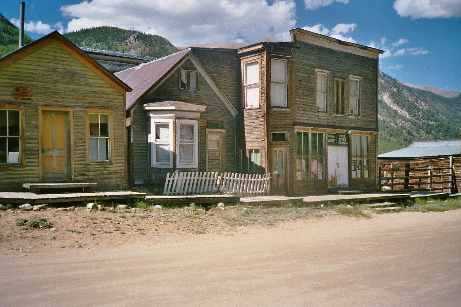 Scene in the ghost town of St. Elmo in Chaffee County, Colorado, United States. The entire community is listed as a historic district on the National Register of Historic Places.